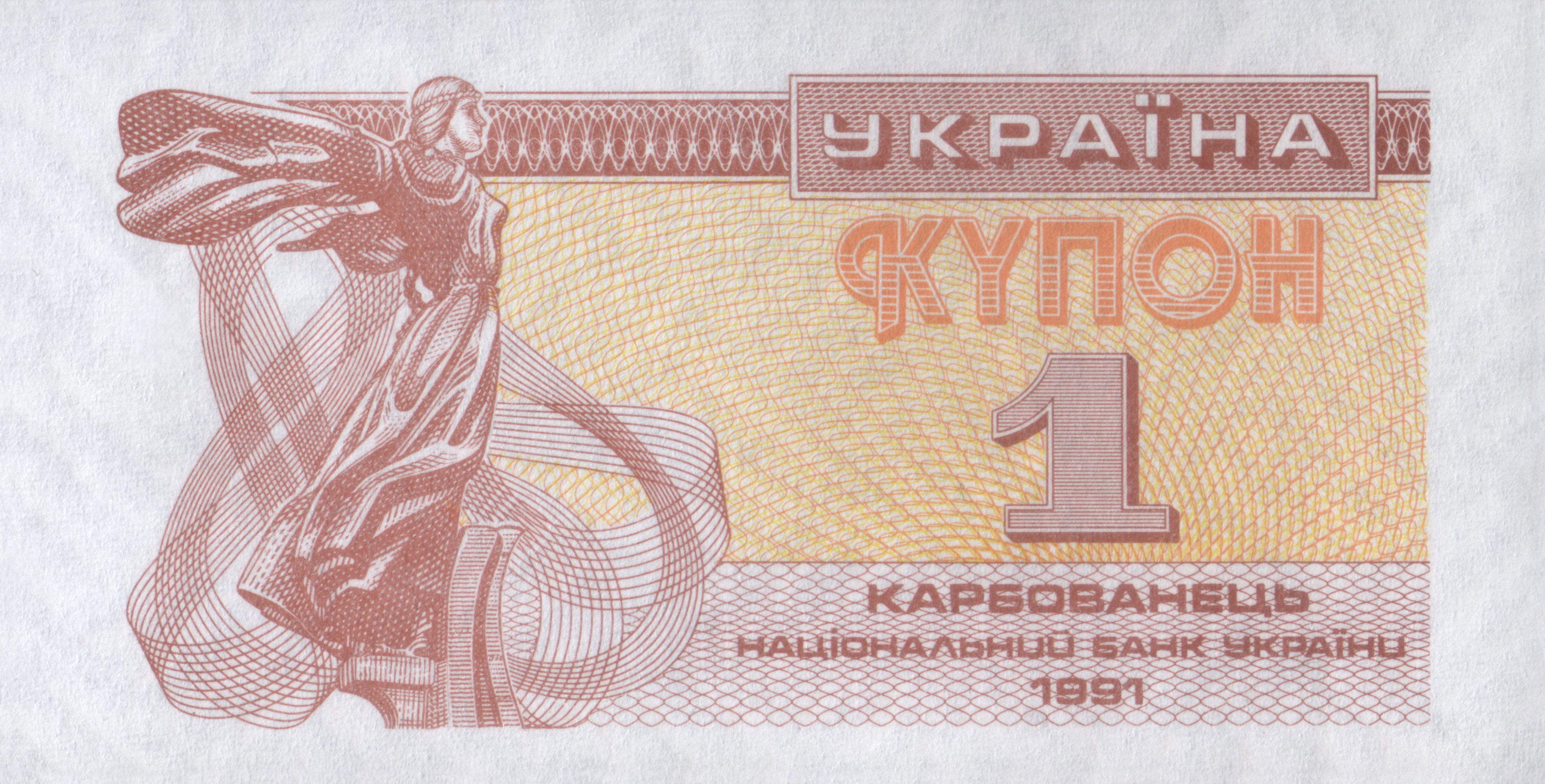 1 karbovanets (1991)